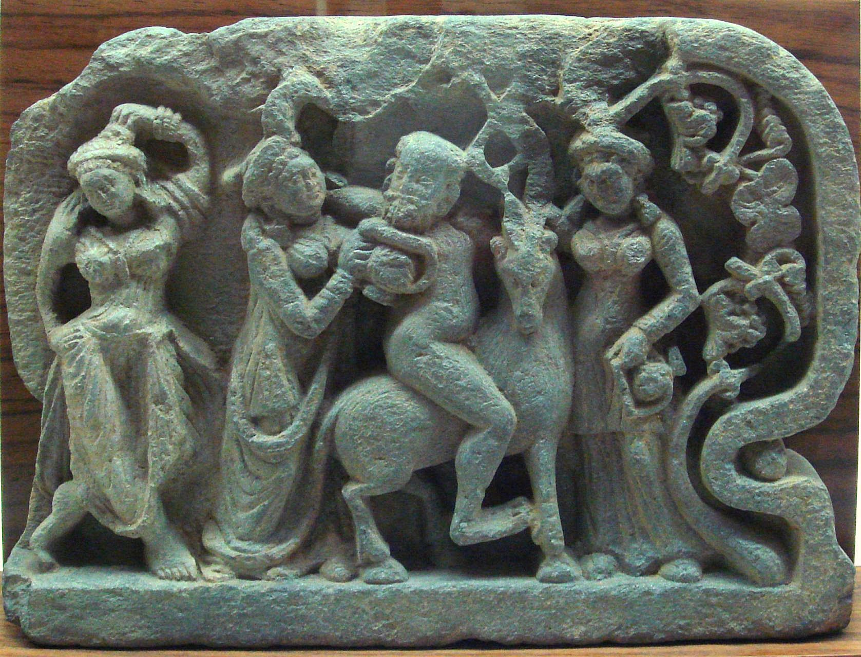 Satyr on a mountain goat, drinking with women. Gandhara 2nd-4th century CE. Ancient Orient Museum, Tokyo.